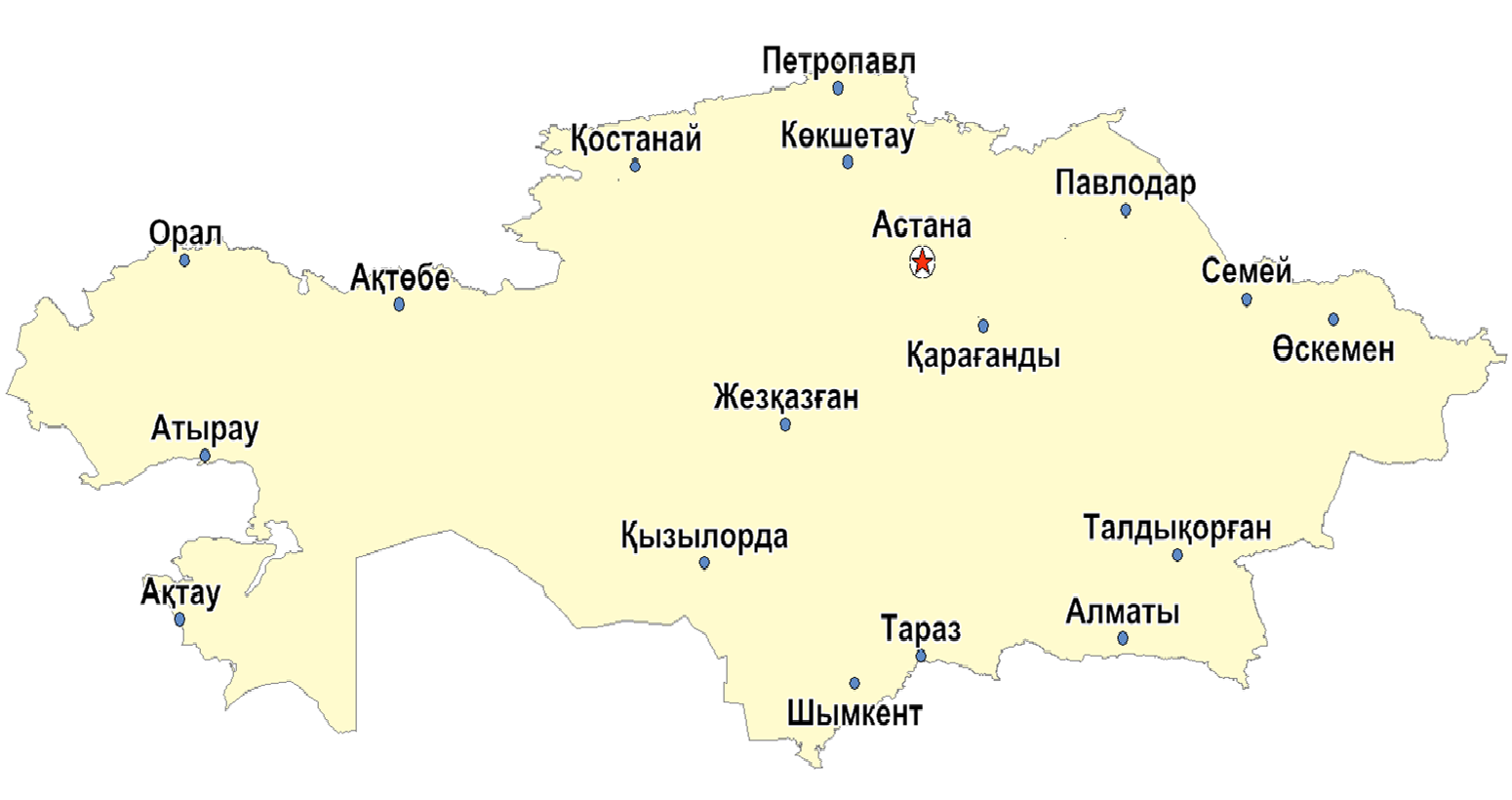 Kazakhstan map with city namees in Kazakh (cyrillic)